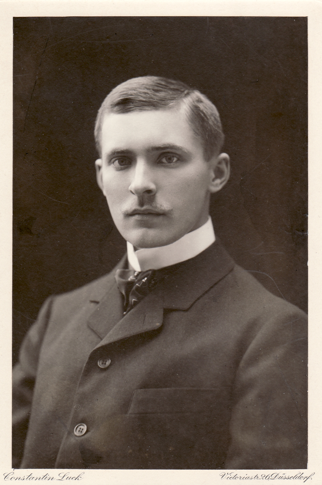 Paul Hans Karl Constantin Schmidt, german bacteriologist, joung